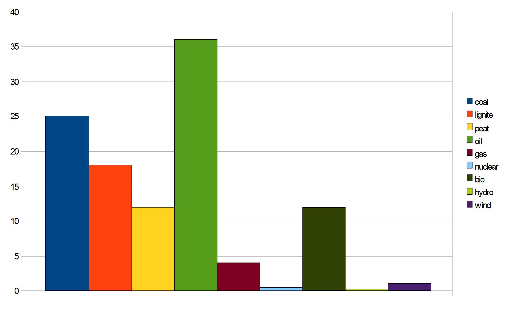 Deaths per terrawatt-hour per energy source in the European Union